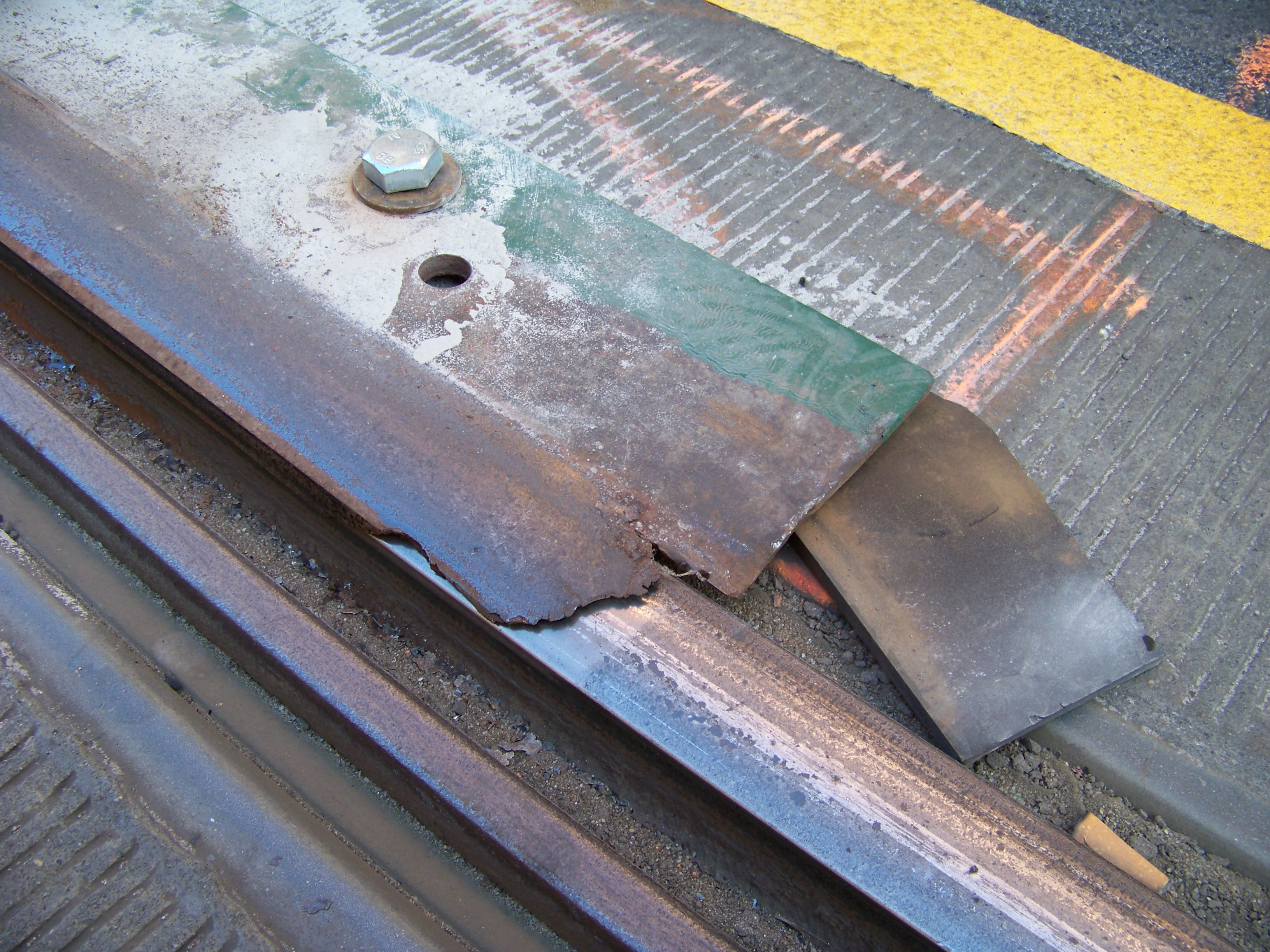 Prague-Smíchov, the Czech Republic. Lidická street, tram rail crossover near the Zborovská stop. - Google Maps - Google Earth